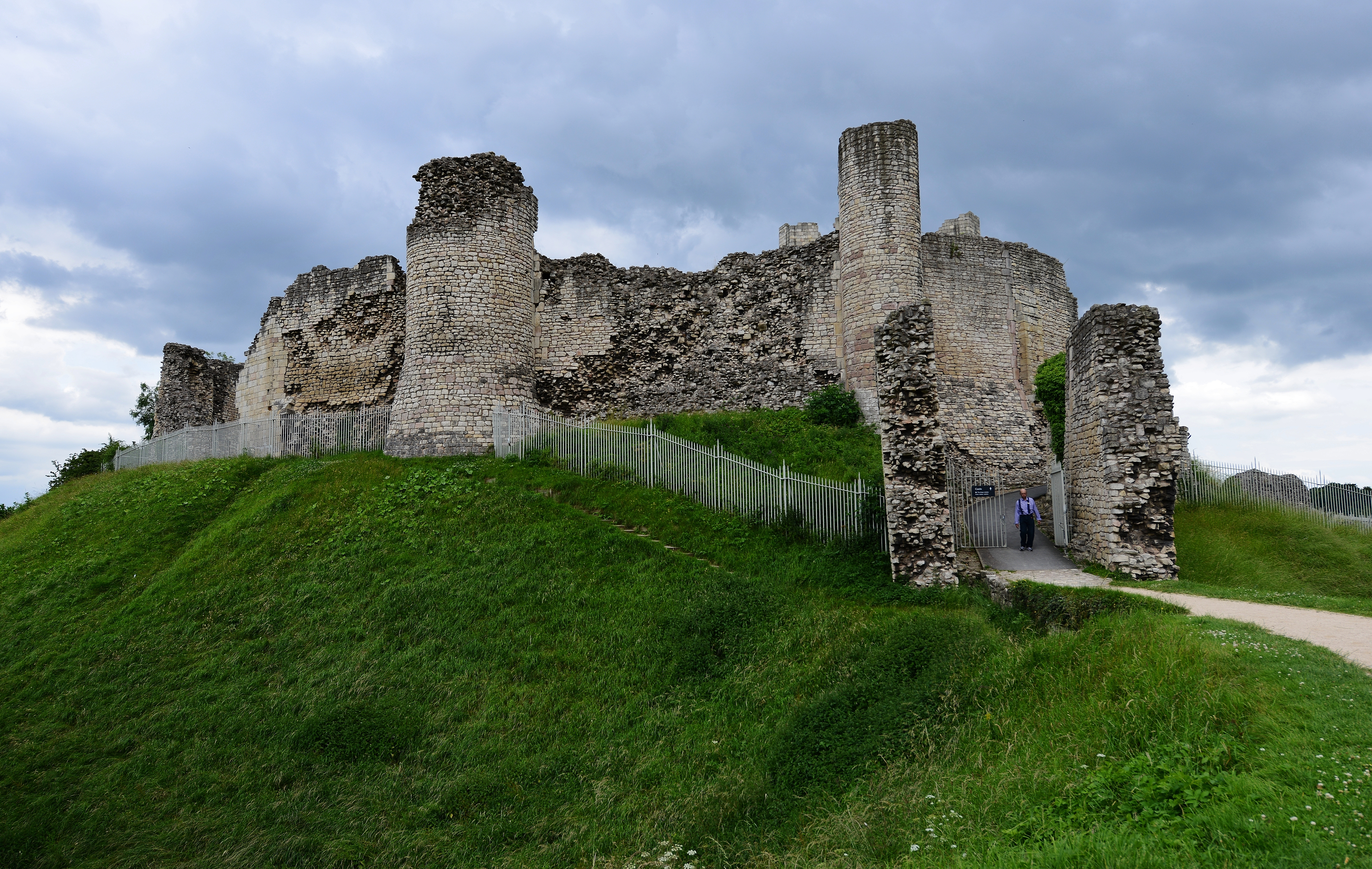 Photo by Michael Garlick